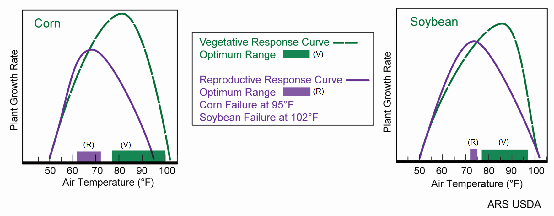 This image shows graphs of how the growth rate of corn and soybeans are affected by air temperatures. From the public-domain source: "For each plant variety, there is an optimal temperature for vegetative growth, with growth dropping off as temperatures increase or decrease. Similarly, there is a range of temperatures at which a plant will produce seed. Outside of this range, the plant will not reproduce. As the graphs show, corn will fail to reproduce at temperatures above 95 °F and soybean above 102 °F." Both graphs show plant growth rates that rise and peak at a particular temperature, then fall off and decline. For corn, optimum vegetative growth occurs between around 77-99 °F, while for soybeans , it occurs between 77-97 °F. For corn, optimum temperatures for producing seeds (reproductive response) occurs between around 62-72 °F, while for soybeans , it occurs between 72-75 °F. See also: climate change and agriculture